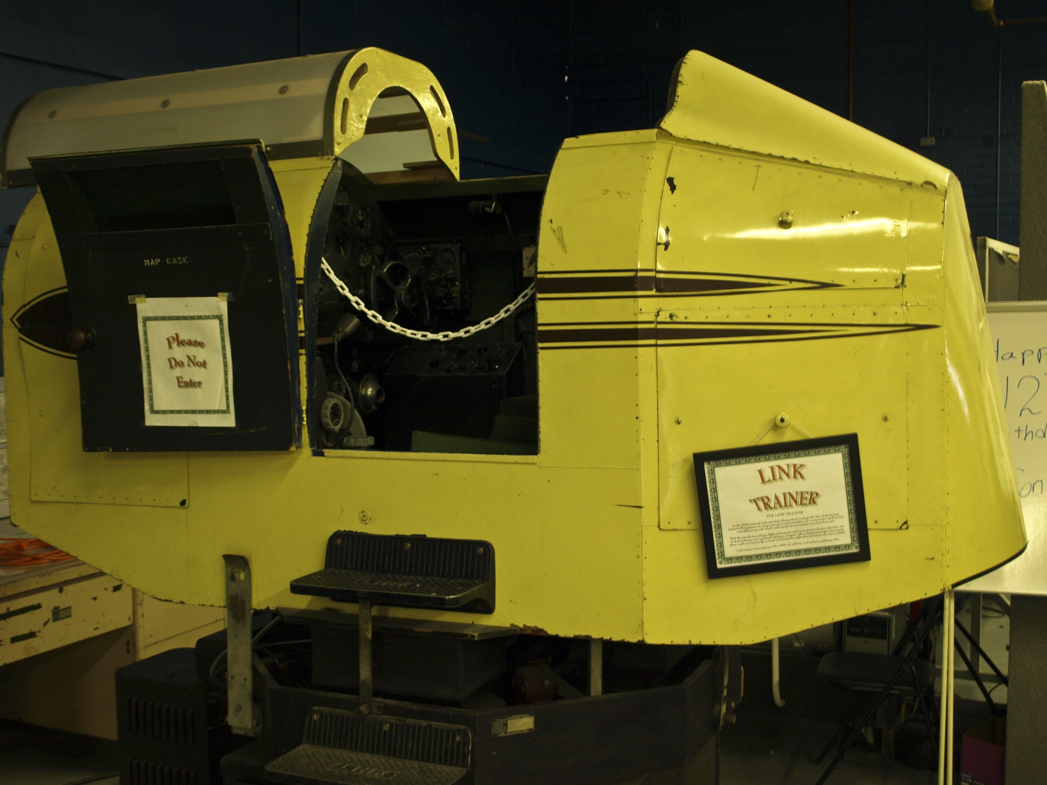 Link trainer at the Canadian Air and Space Museum, Downsview (Toronto).